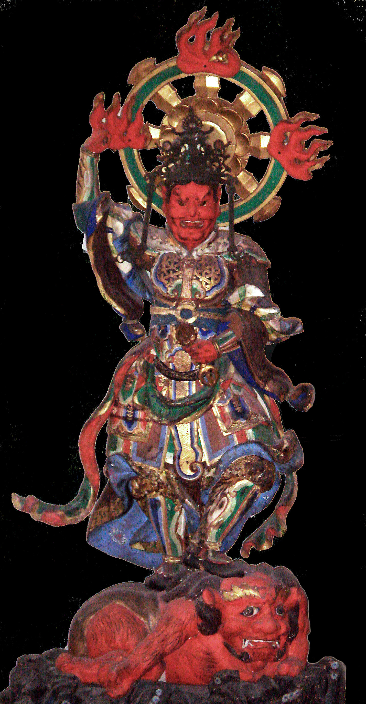 Virūḍhaka, japanese representation (named Zōchō-ten 増長天).